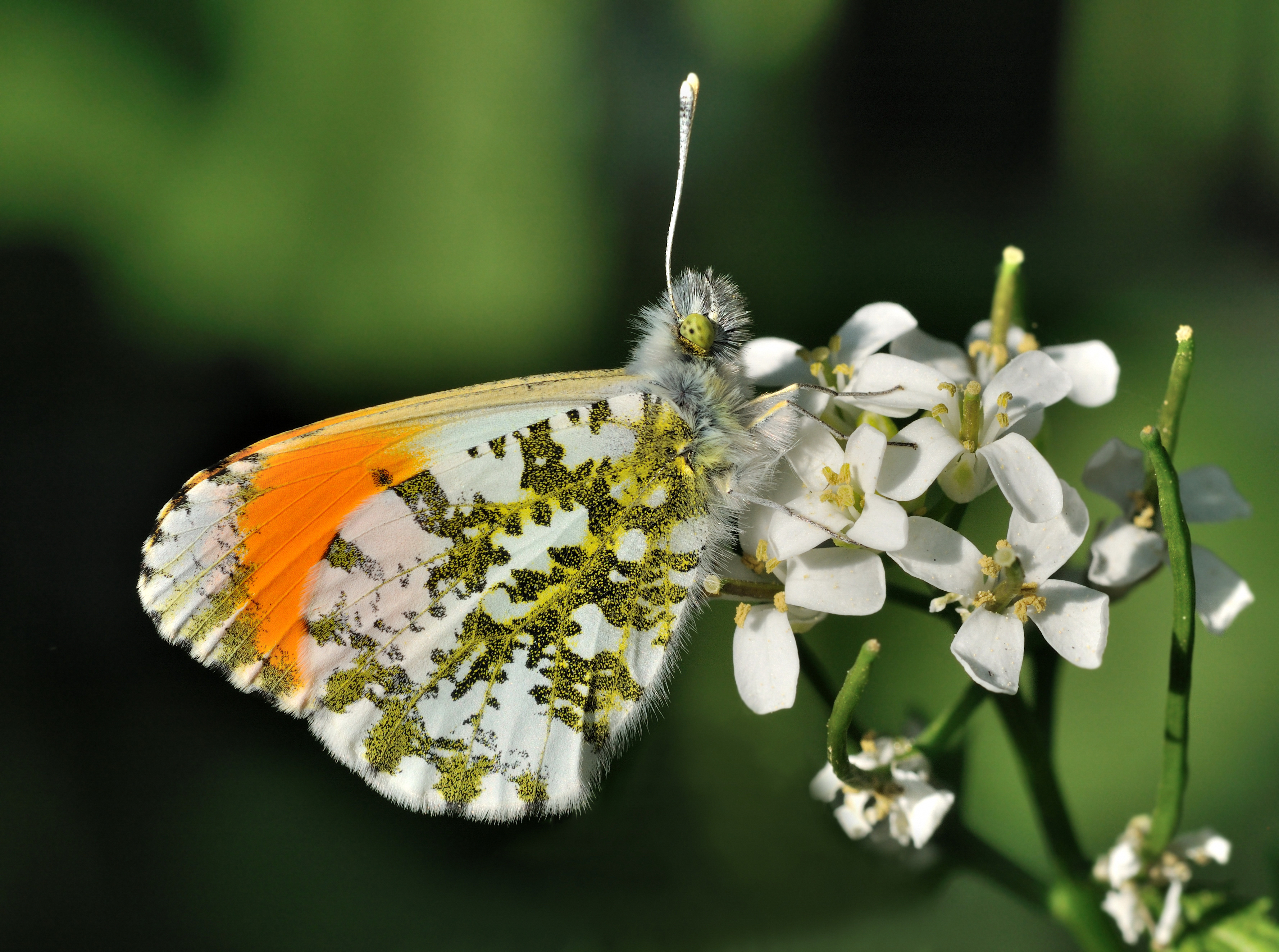 Side view of a male Orange Tip (Anthocharis cardamines) on Garlic mustard (Alliaria petiolata) in Ahlen, Germany.